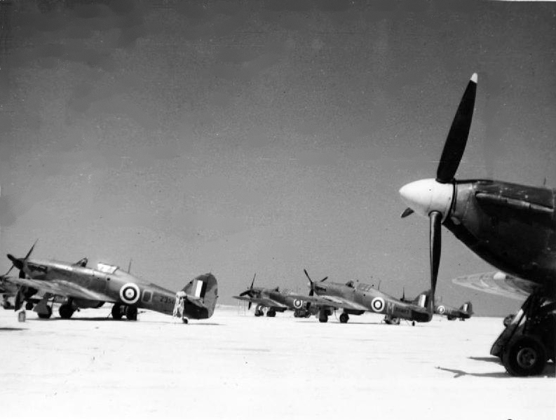 Hawker Hurricane Mark IIs of the RAF Malta Night Fighter Unit wait at readiness at Ta Kali, Malta.